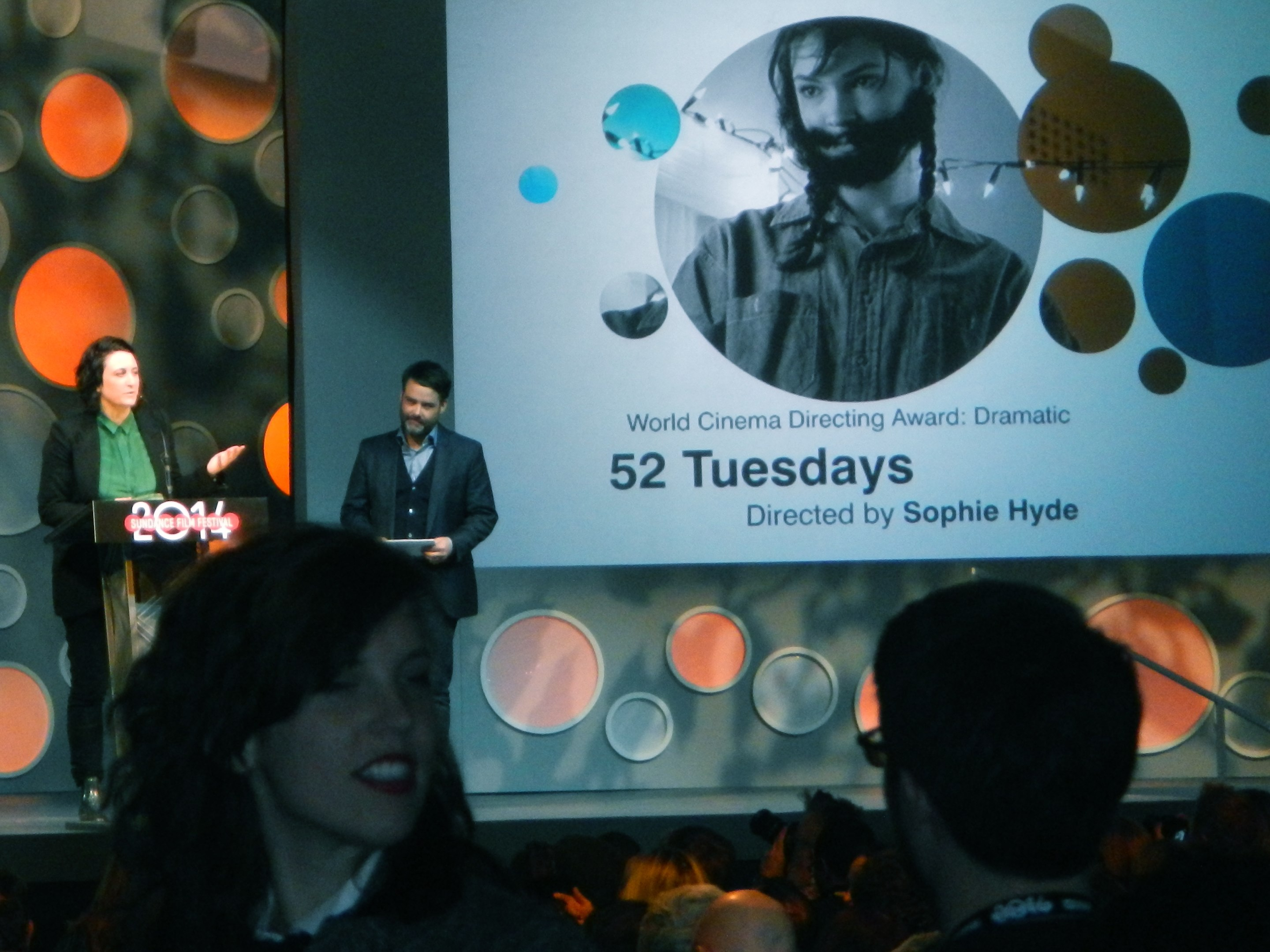 Sophie Hyde at the Sundance 2014 Awards Ceremony